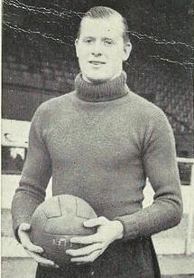 Goalie